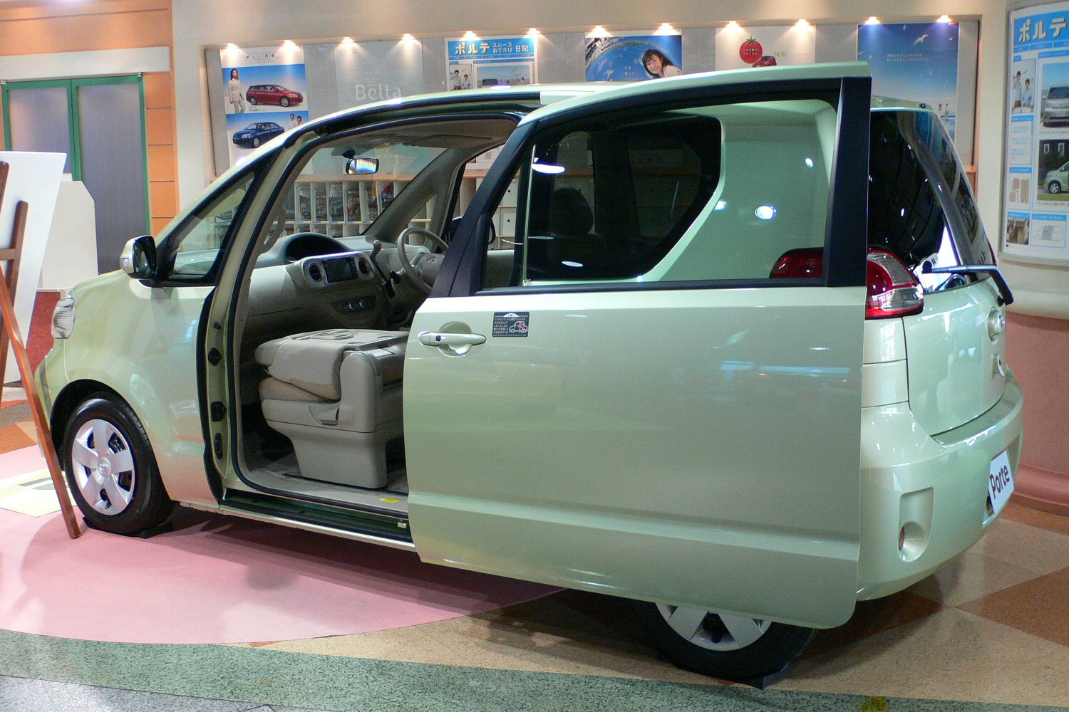 Toyota_Porte(2005) taken in Showroom of Toyota-AMLUX